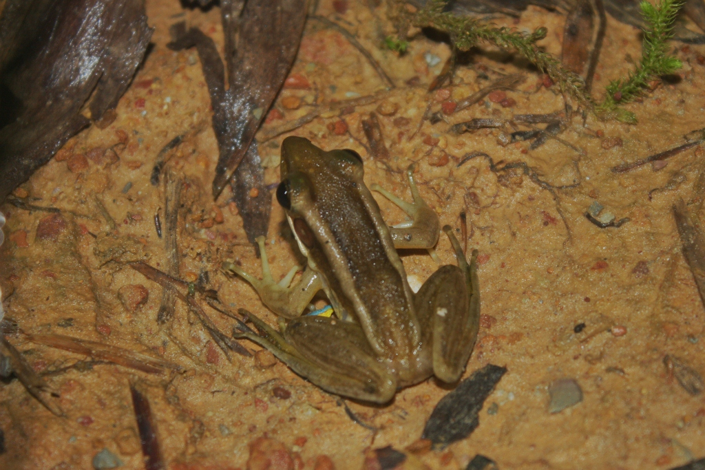 Seemed to be fairly common near disturbed areas with ponds or marshes around Kota Kinabalu.